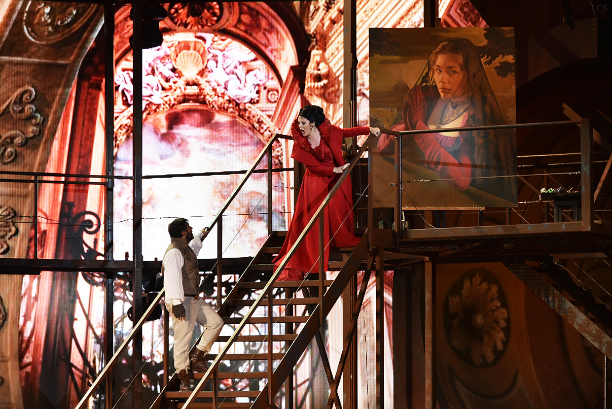 Tosca, Sankt Margarethen, 2015